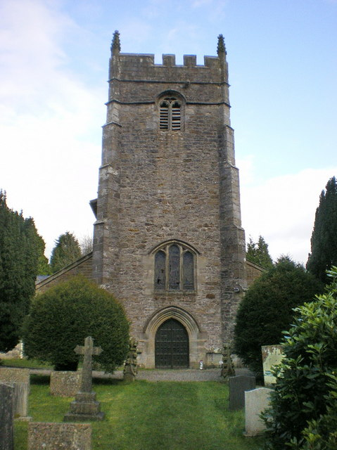 The Parish Church of St John the Baptist, Low Bentham, Tower